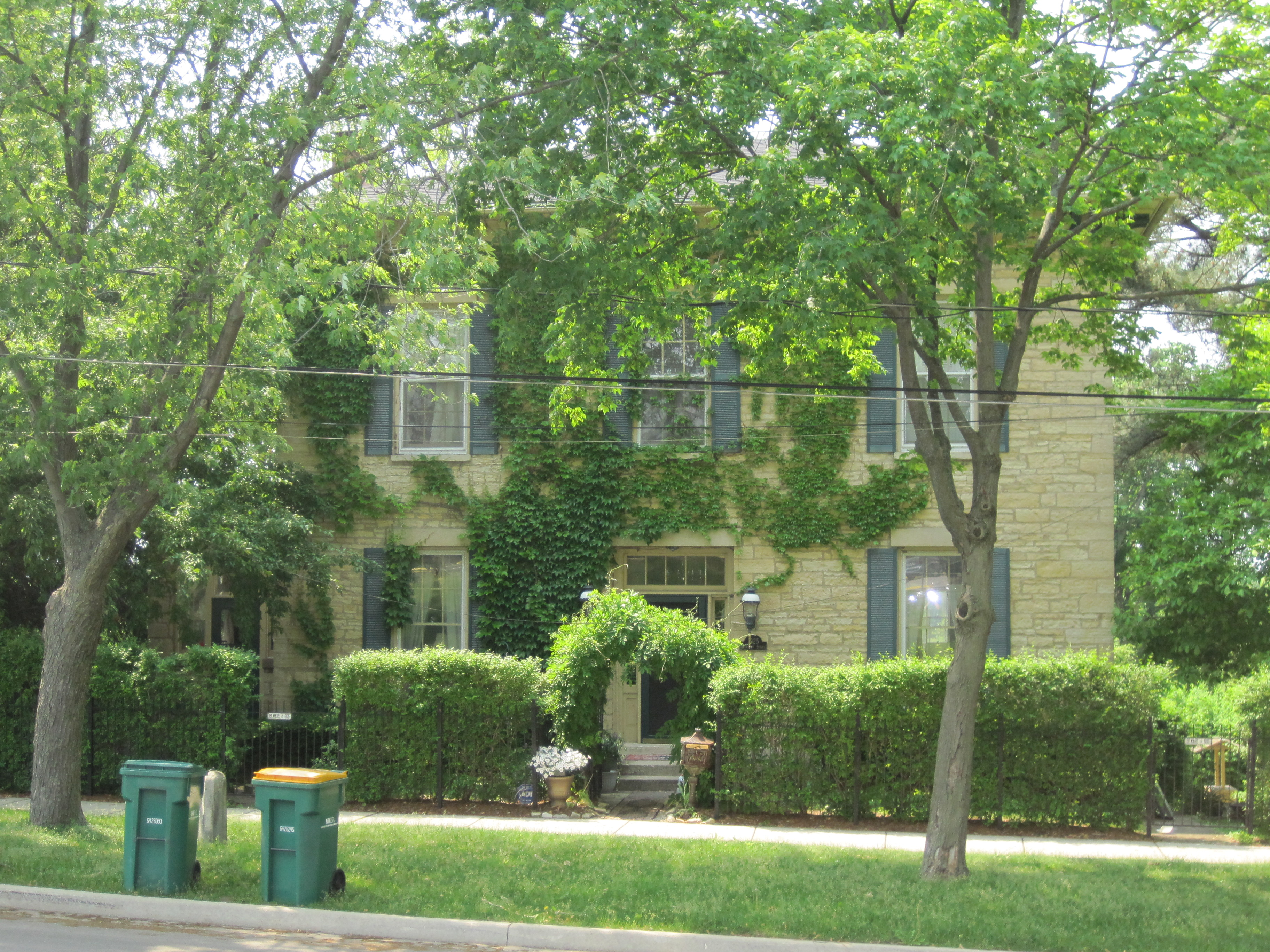 I (Teemu08 (talk)) took this image on June 3, 2011.